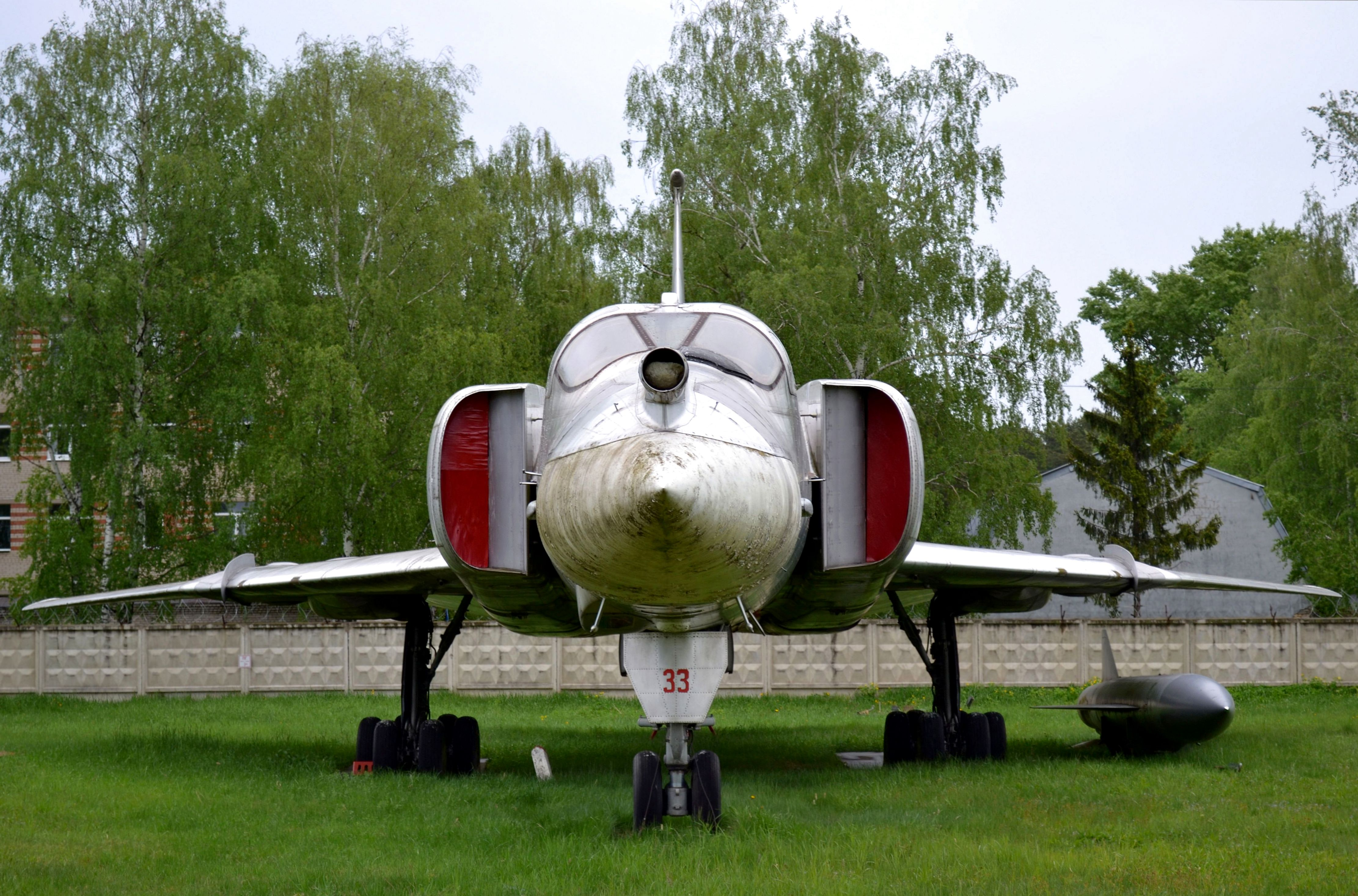 A Soviet supersonic bomber Tu-22M0 at the Central Air Force Museum in Monino, Russia.